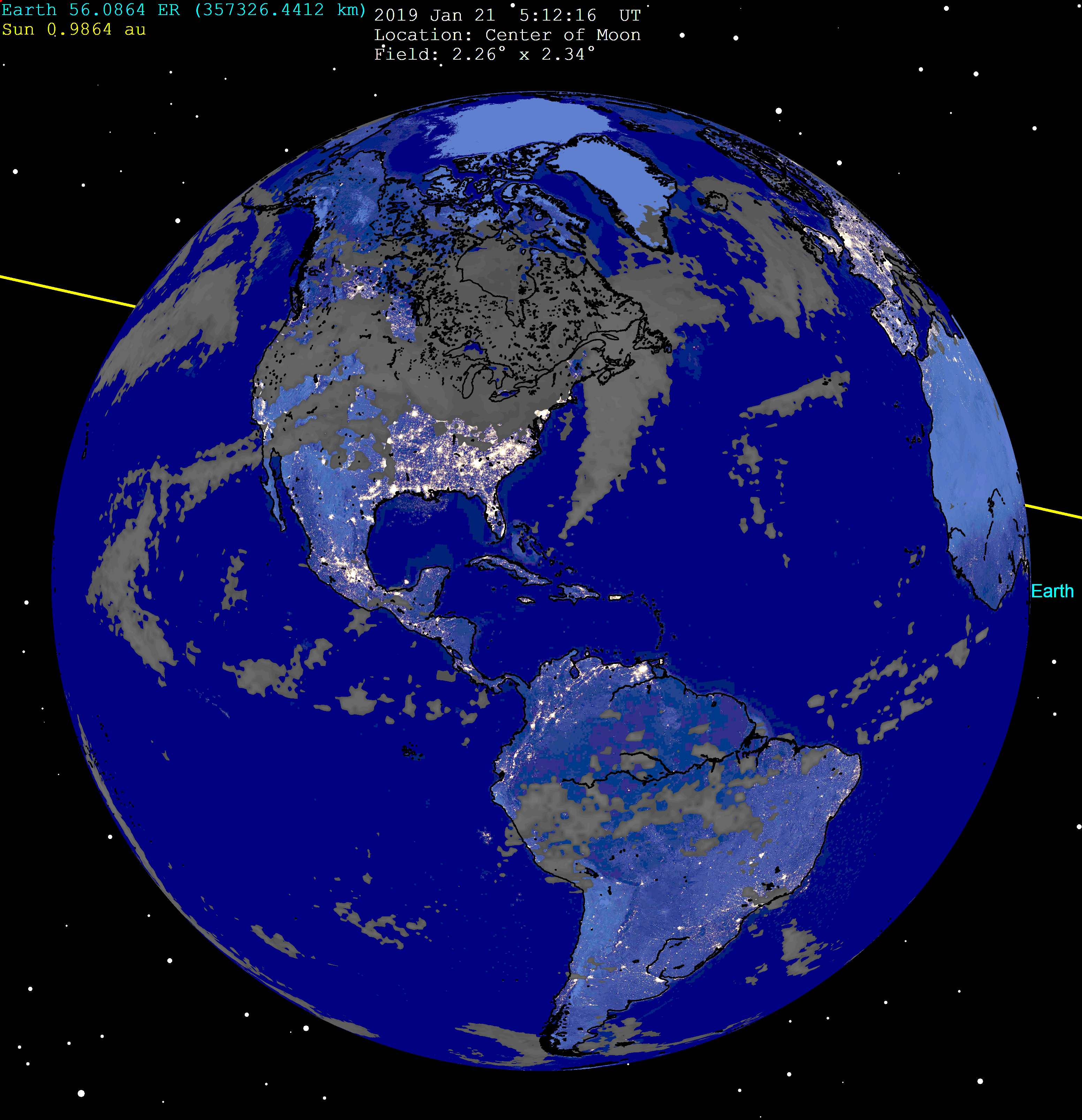 January 2019_lunar_eclipse view of earth The orientation of the earth as viewed from the center of the moon during greatest eclipse. thumb